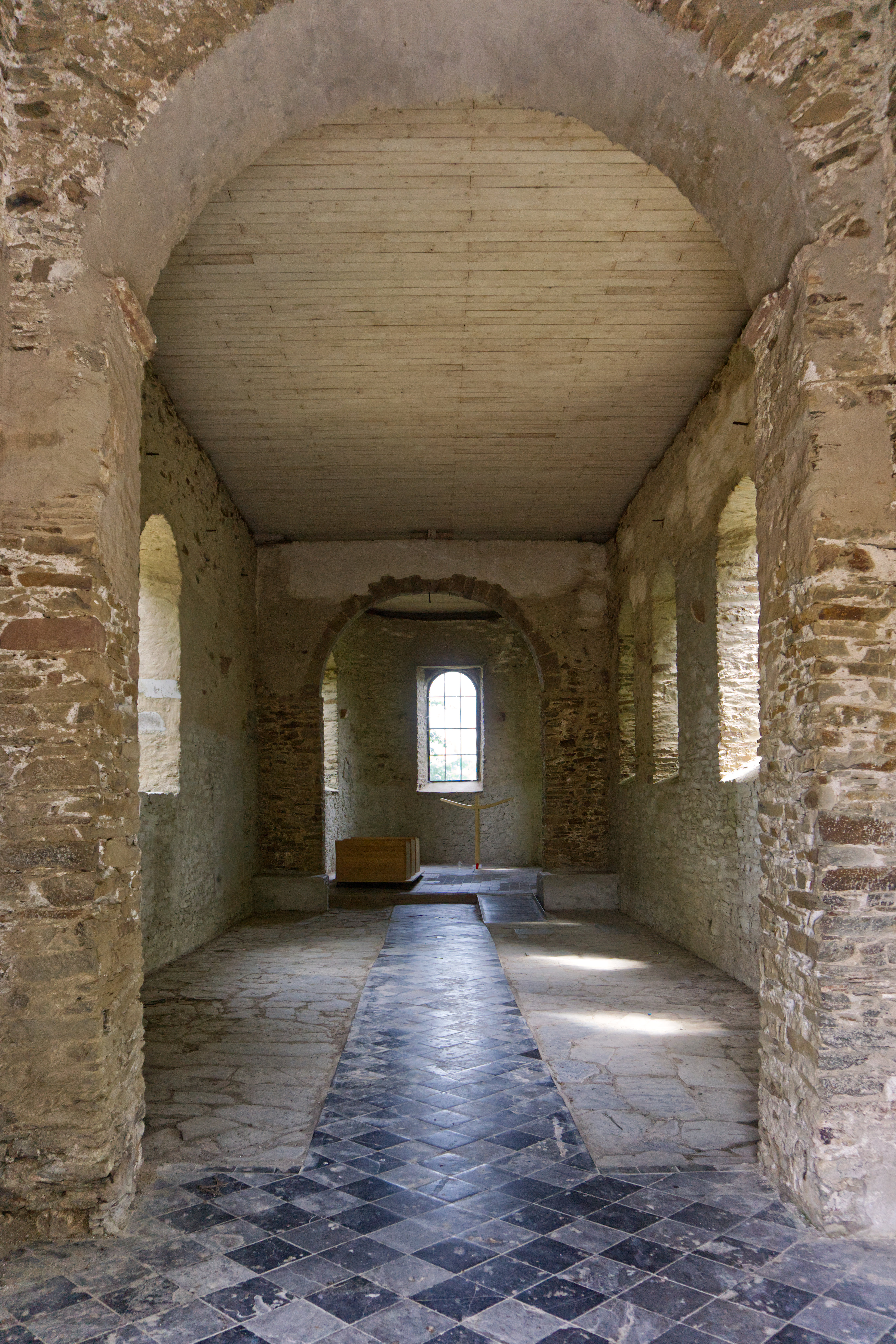 Former church St. Rochus in the abandoned village of Wollseifen, Schleiden, Germany